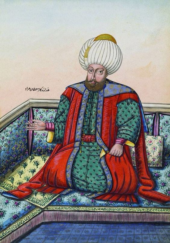 Murad I